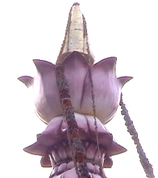 I took this photo graph.